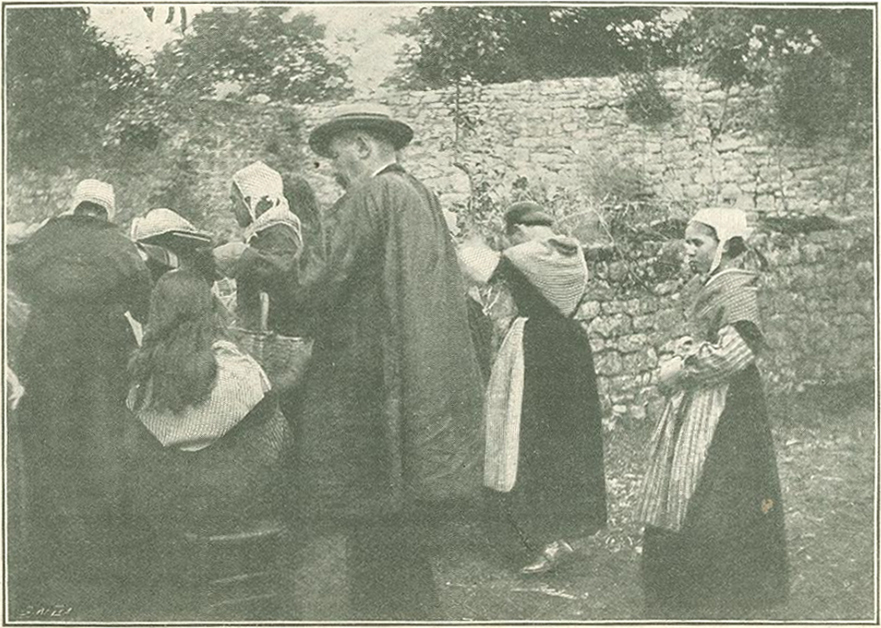 From the annual hair harvest in Brittany, France. The hair shearer in full swing!